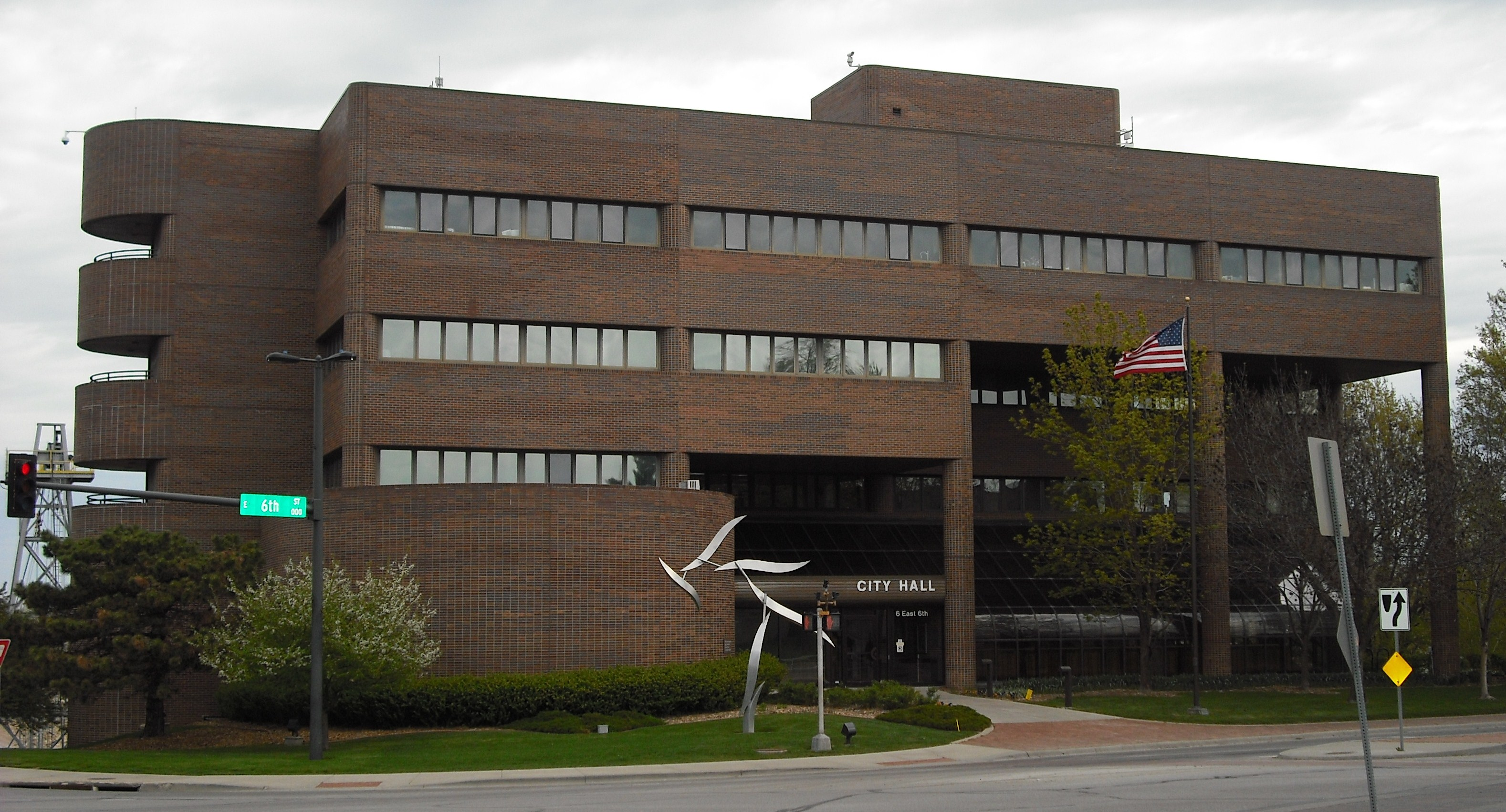 Lawrence, Kansas City Hall. Located on banks of the Kansas River at 6th & Massachusetts.